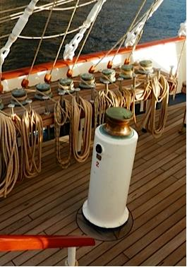 Locking capstans and a powered capstan on a tall ship